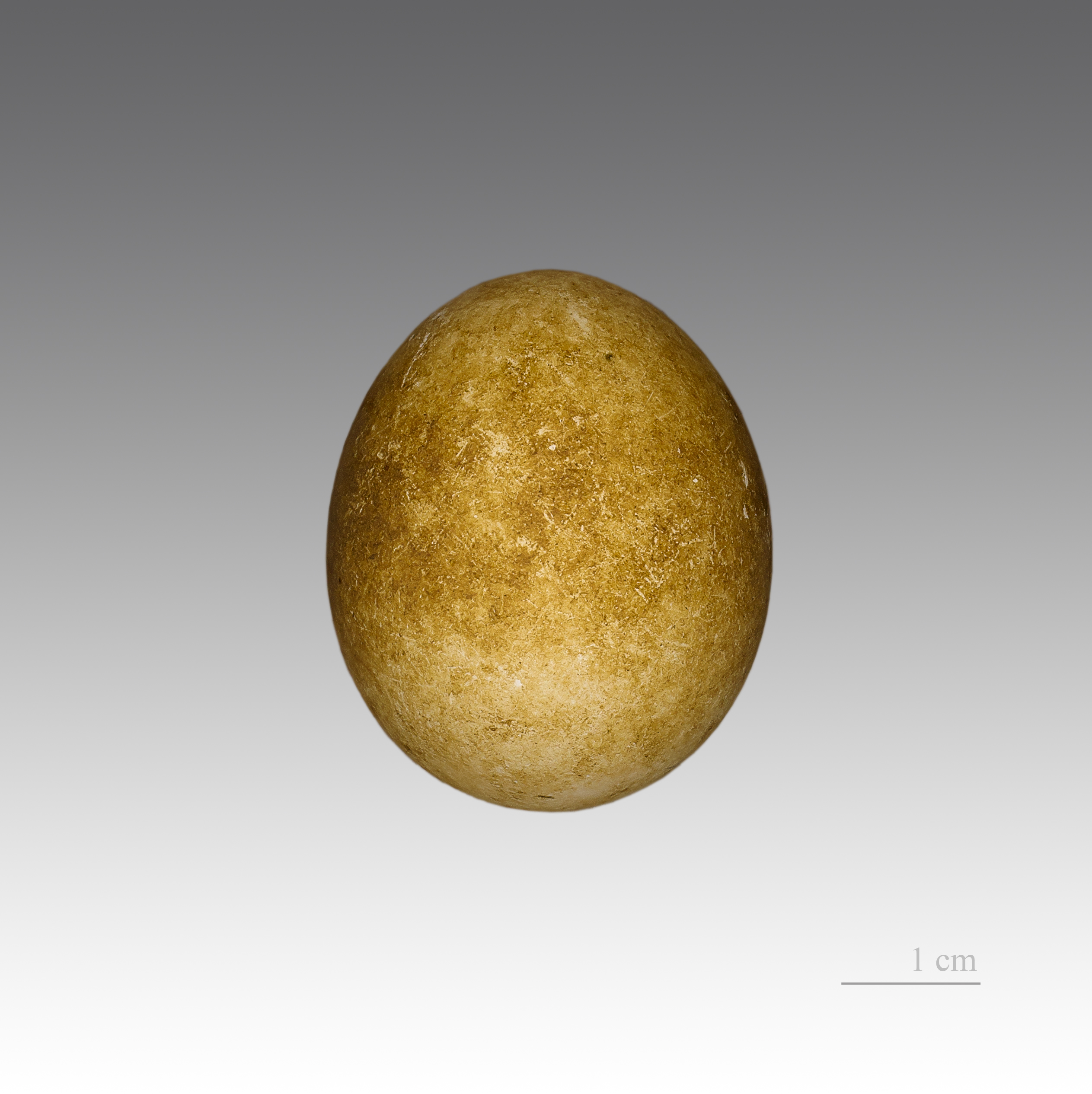 Egg of South Georgia Diving Petrel. Collection of Vincent Bretagnolle /Jacques Perrin de Brichambaut Locality: Ile du chat, Kerguelen Islands, France